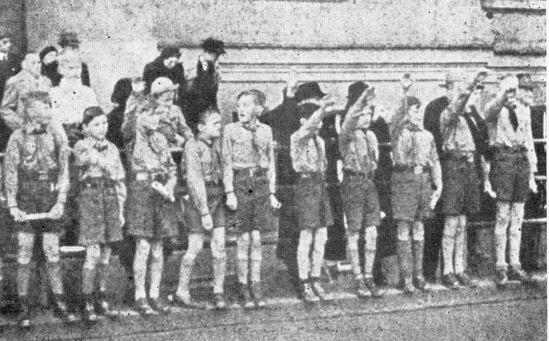 Youth Sudetendeutsche Partei - 1 May 1938